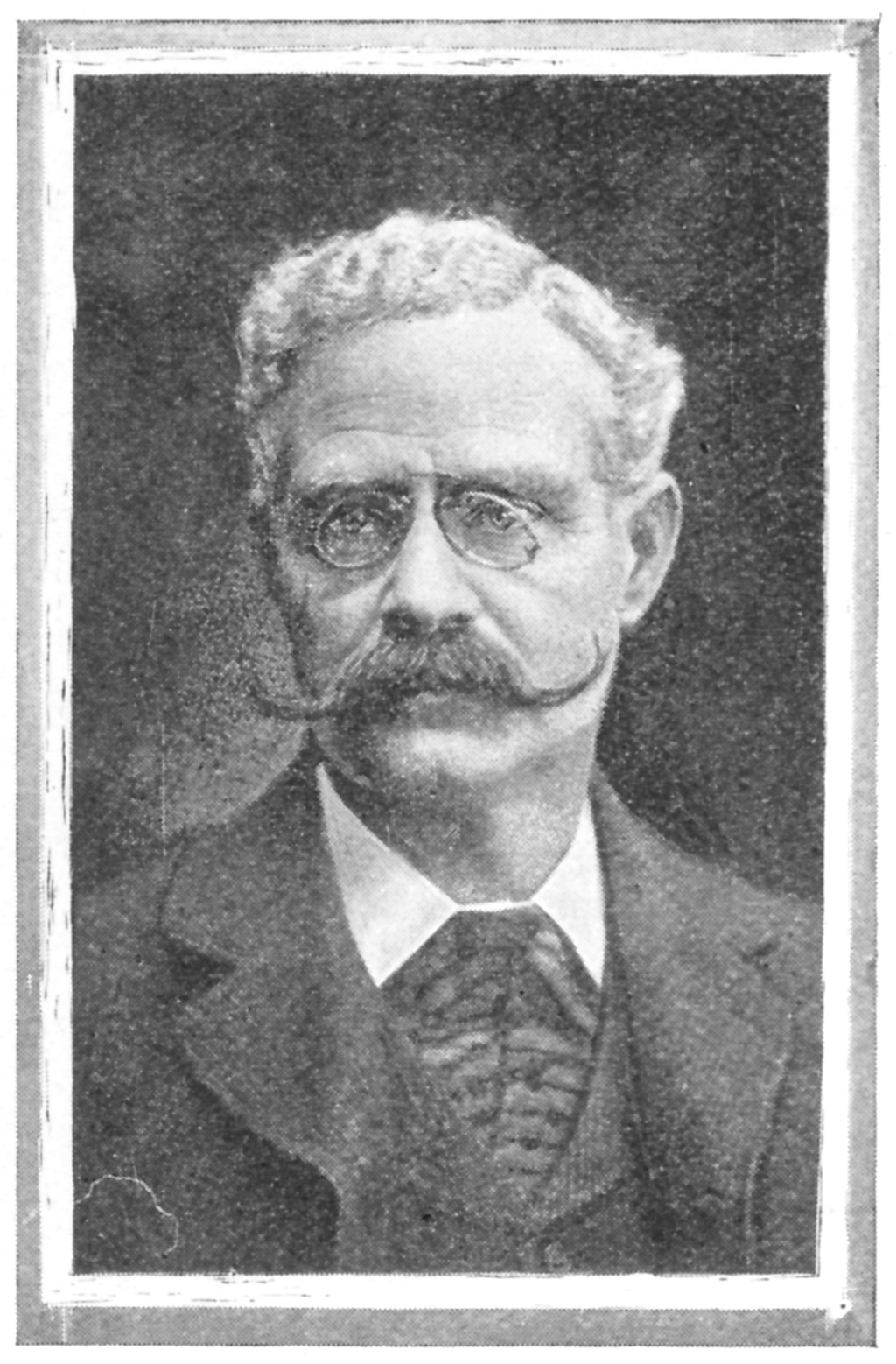 Portrait of the painter and malacologist Carlo Pollonera, appearing on page 162 in Taylor, J.W. 1905. Monograph of the land and freshwater Mollusca of the British Isles. Part 11. Leeds: Taylor Brothers.